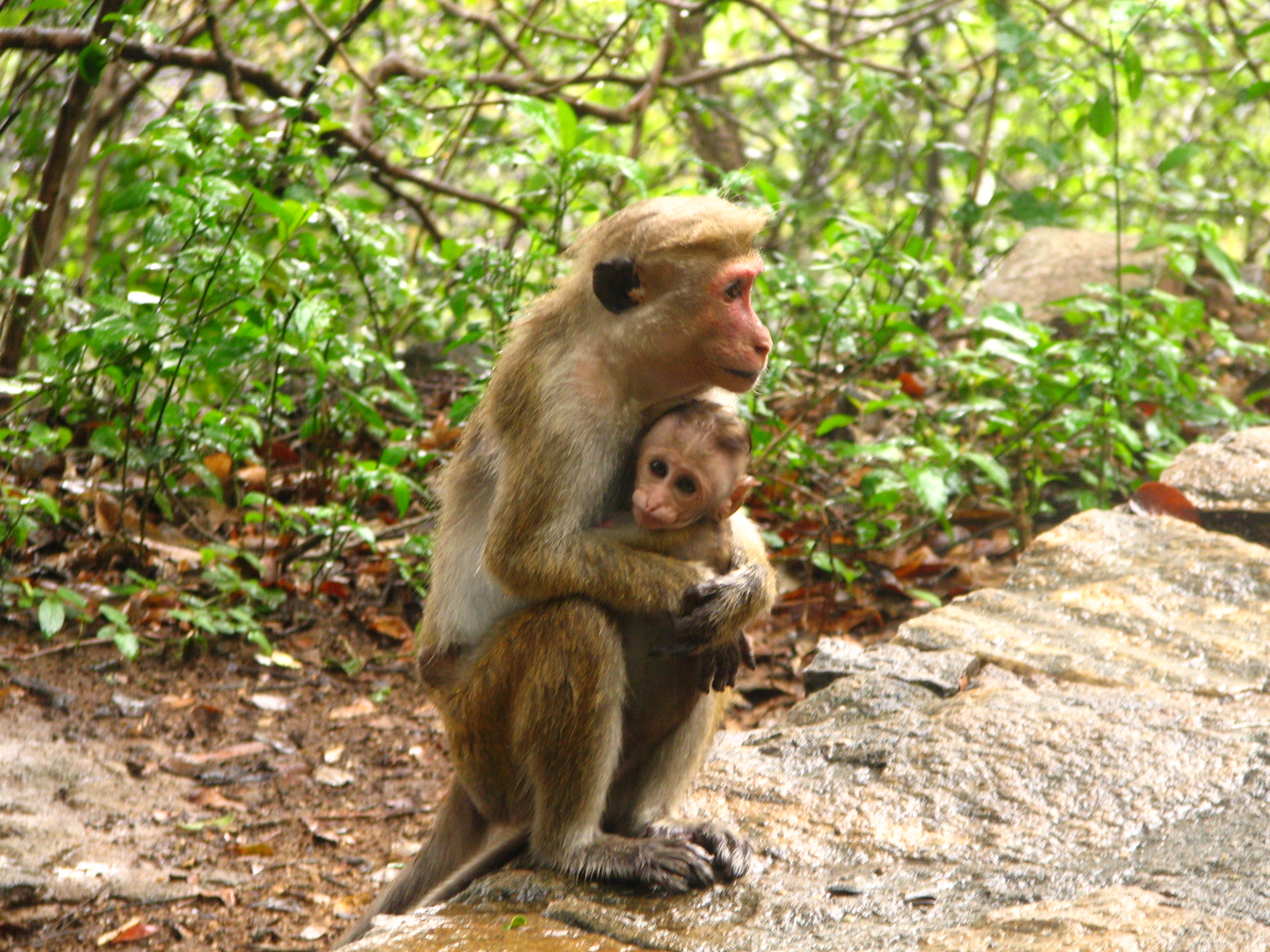 Toque Macaque in Sri Lanka